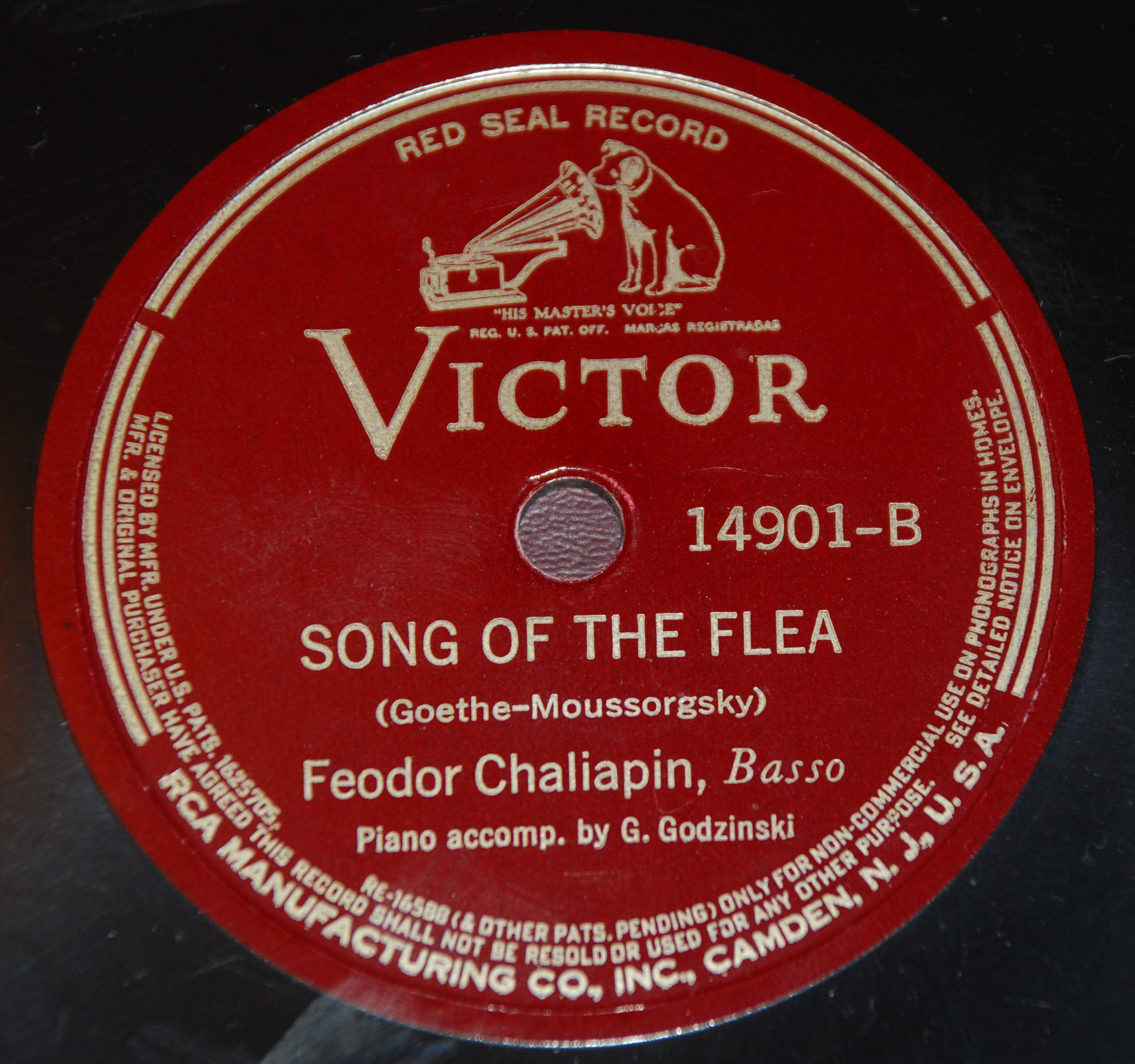 Feodor Chaliapin - Song of the Flea - Victor 14901B recorded in 1936